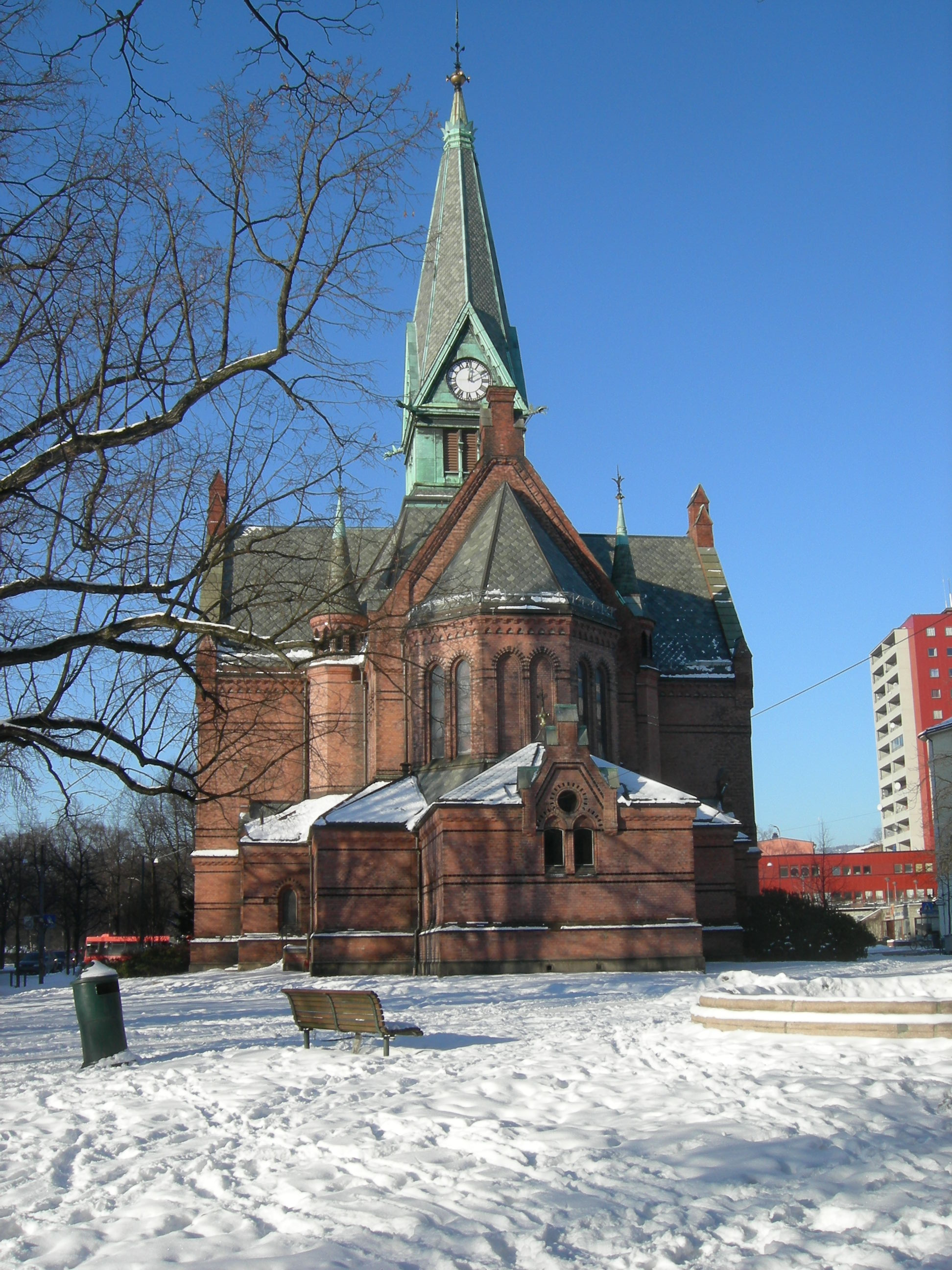 Sagene church, Oslo, Norway, seen from east